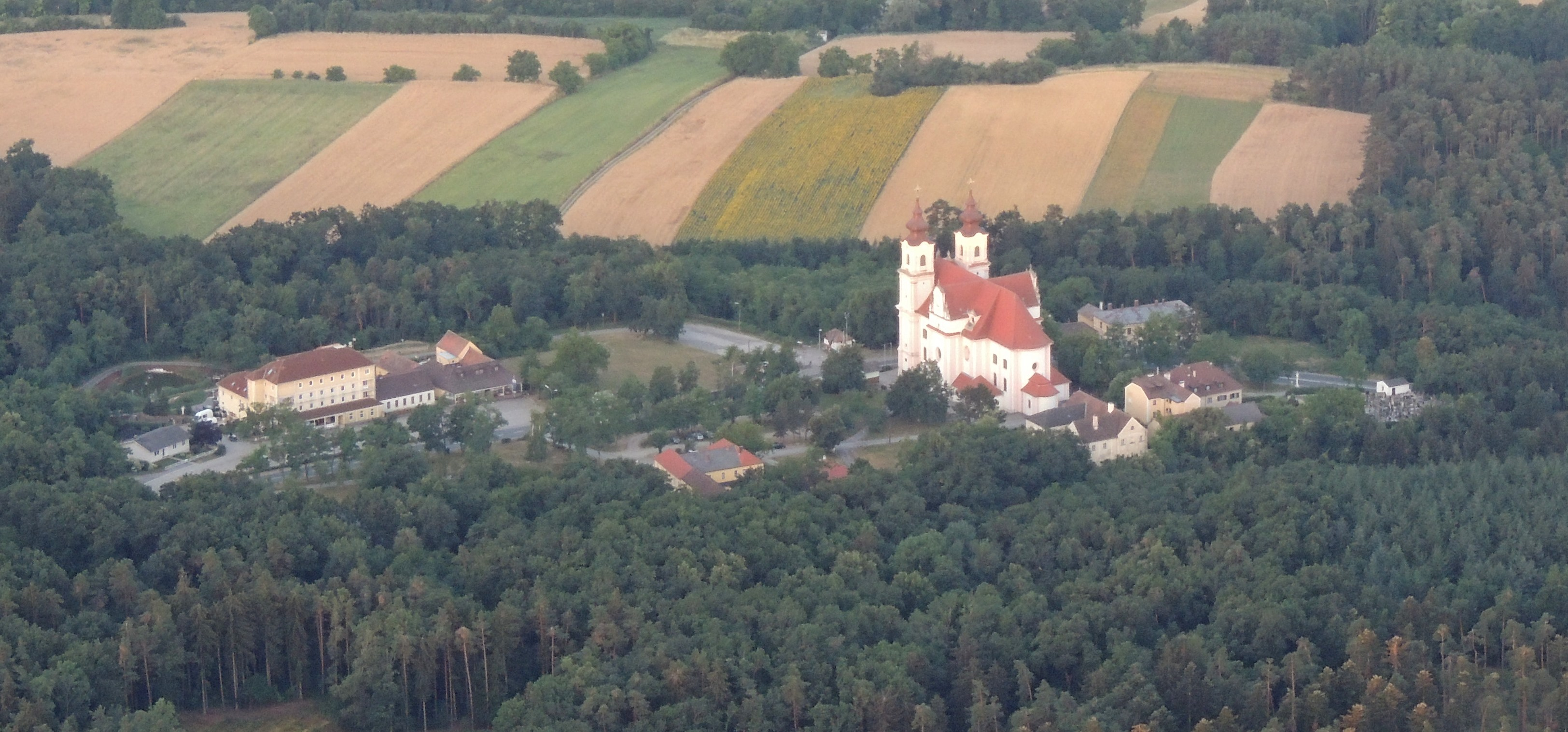 Basilika Maria Dreieichen, view from Northeast early morning from Baloon